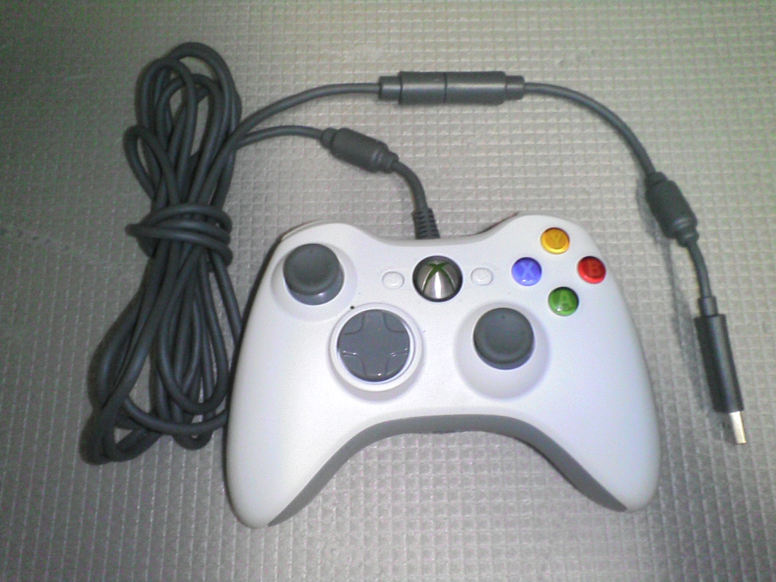 Controller for Xbox 360